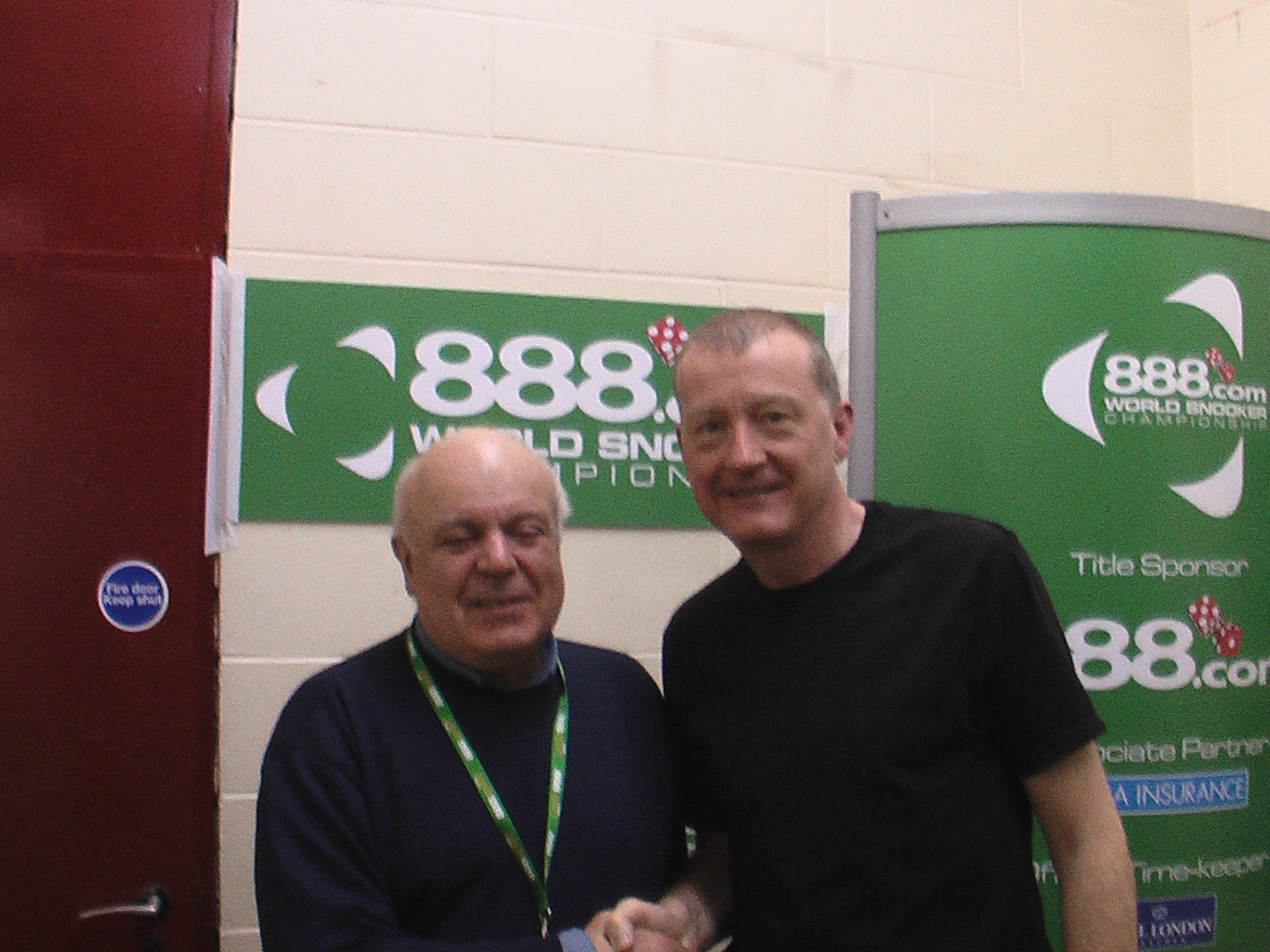 Russian journalist Valery Vinokurov (left) and six-times world snooker champion Steve Davis. Sheffield, 2008